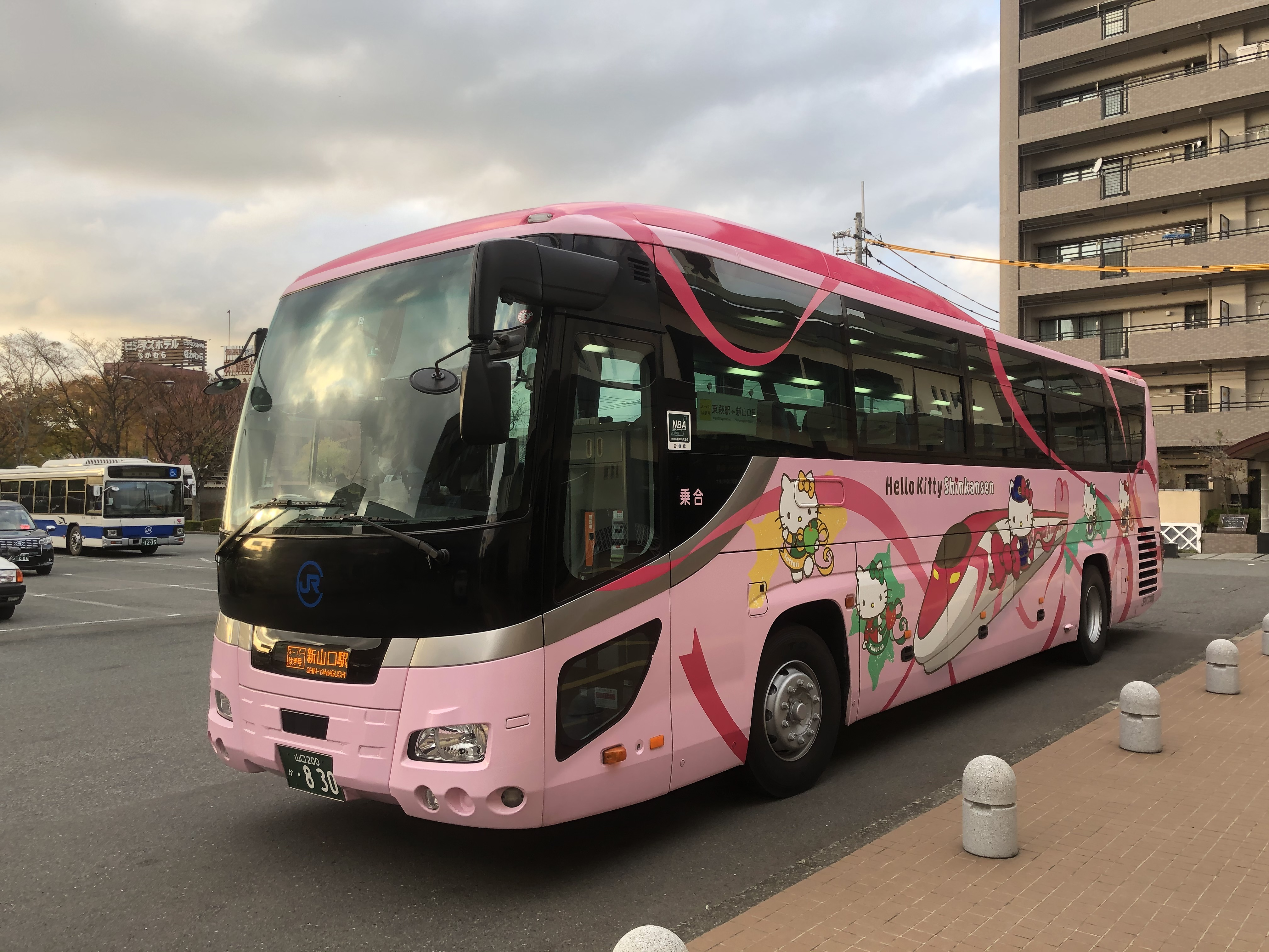 The bus is operated in Hiroshima and Yamaguchi prefecture in Japan.